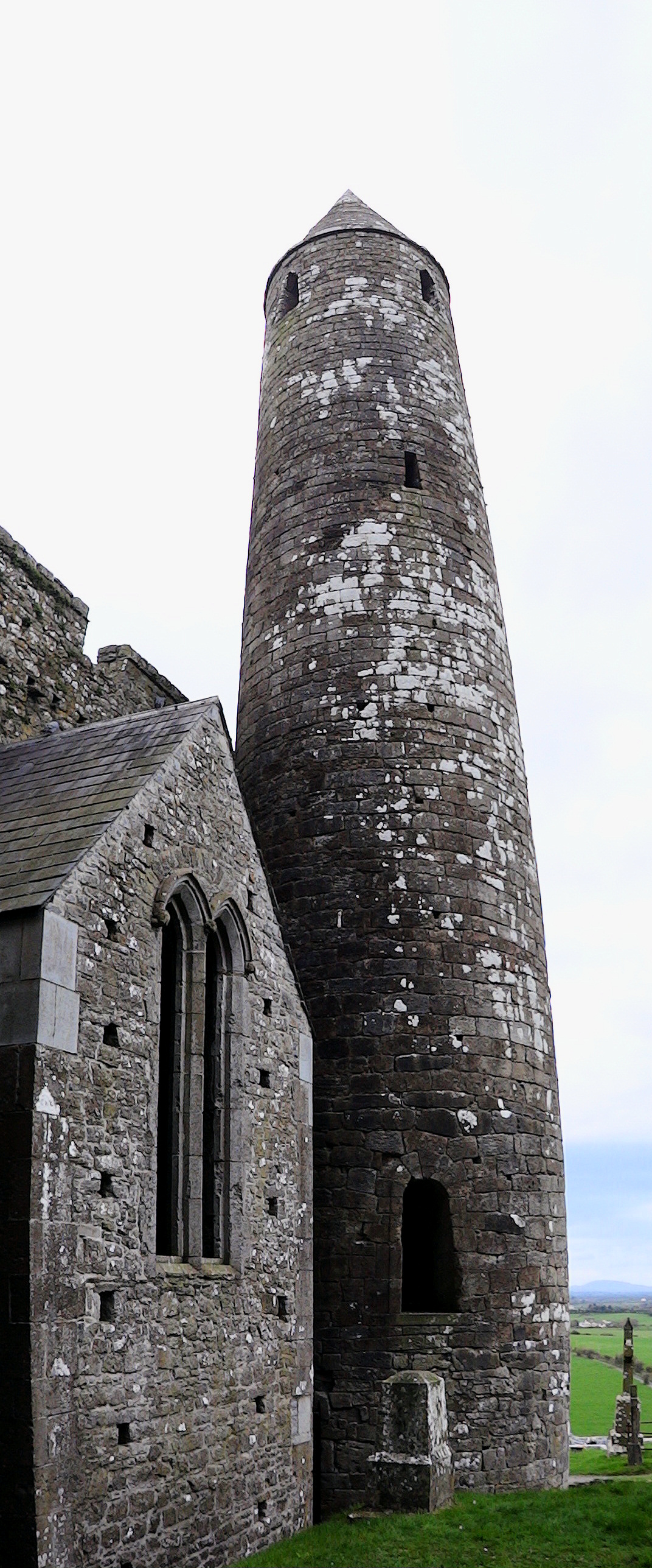 The round tower at the Rock of Cashel in Cashel, Tipperary. It's about 28 metres tall, dating from around 1100, built using the dry stone method.